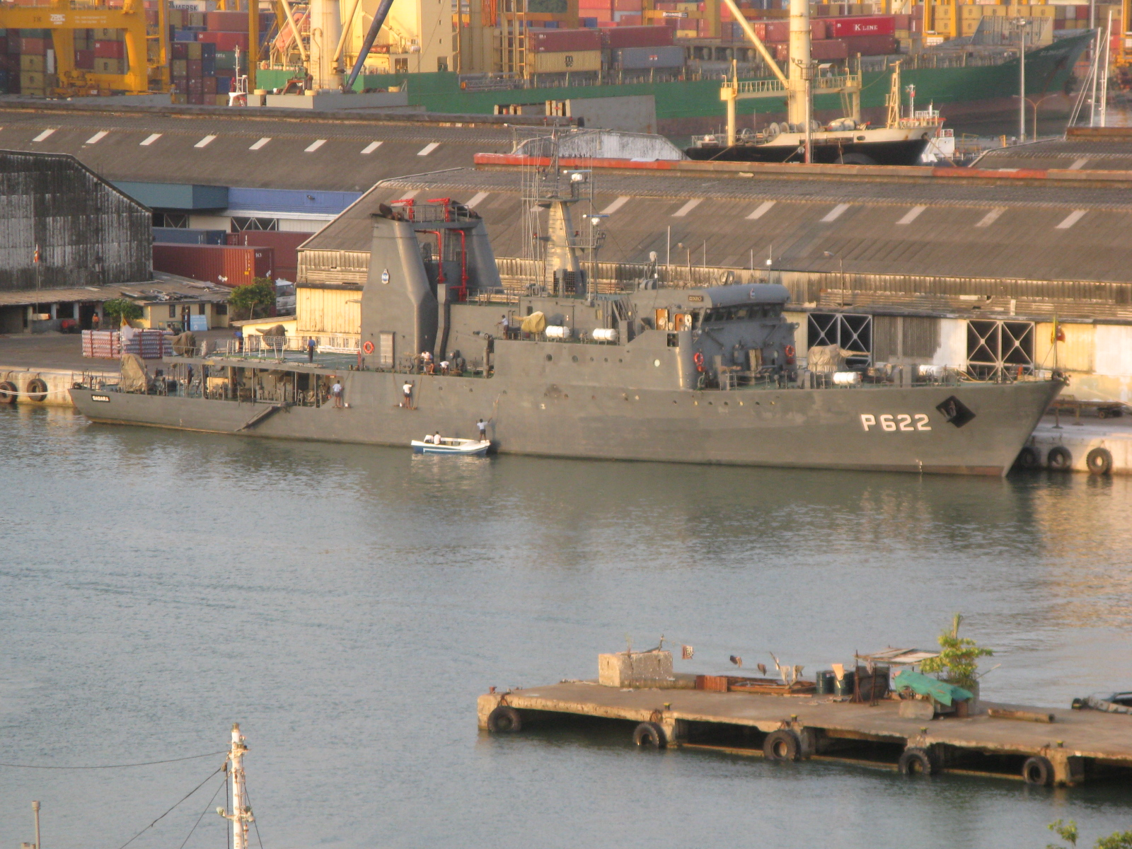 Offshore Patrol Vessel SLNS Sagara (P 622) - Sri Lanka Navy